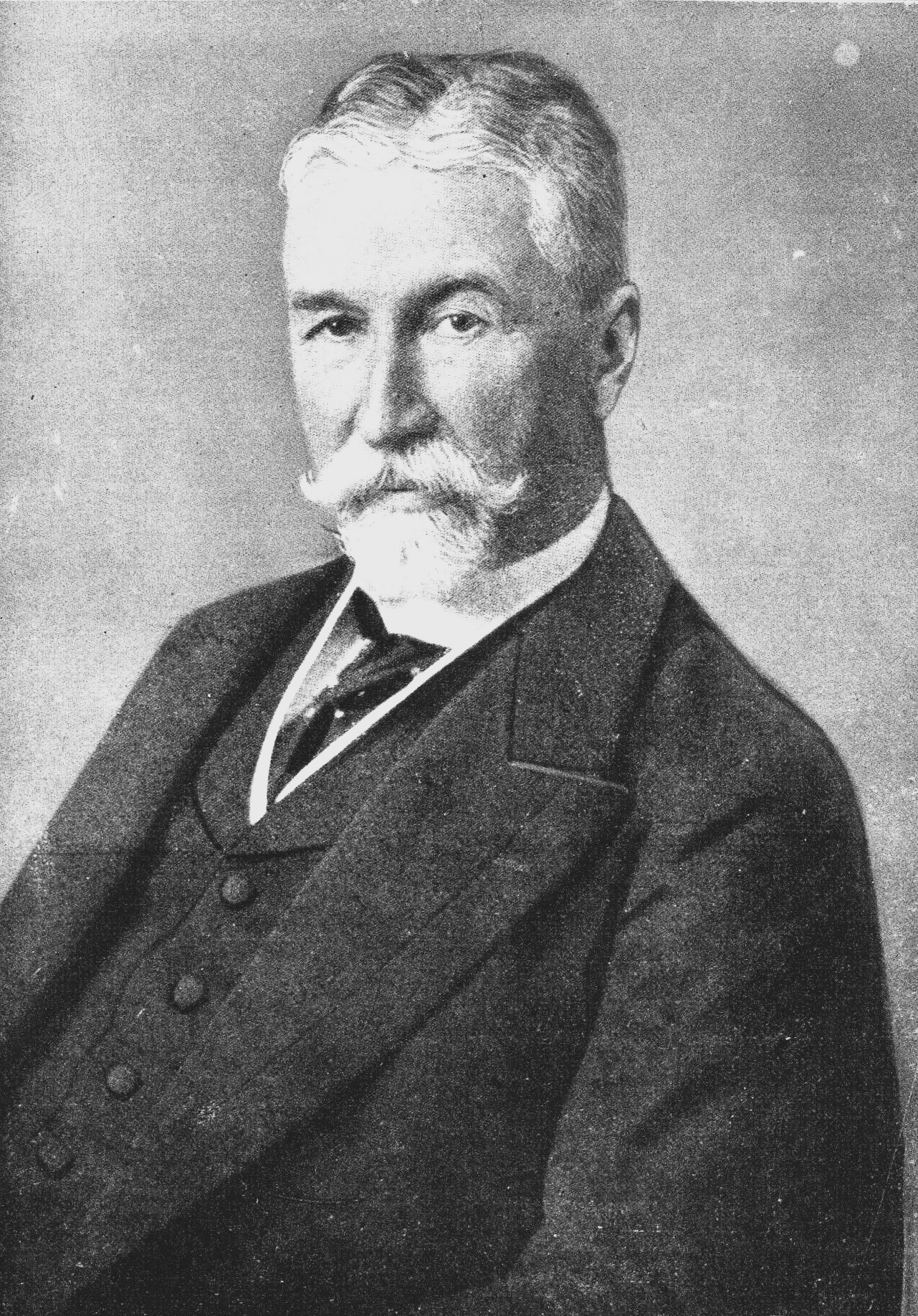 Paul von Breitenbach (1850–1930), Prussian politician and railway planner.